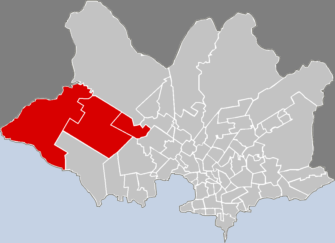 Blank map of the barrios of Montevideo